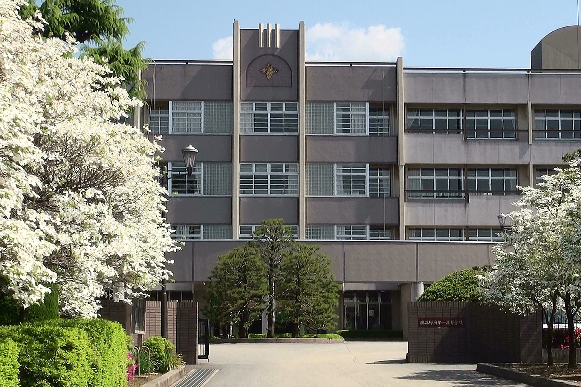 Kofu first high school in Yamanashi prefectural